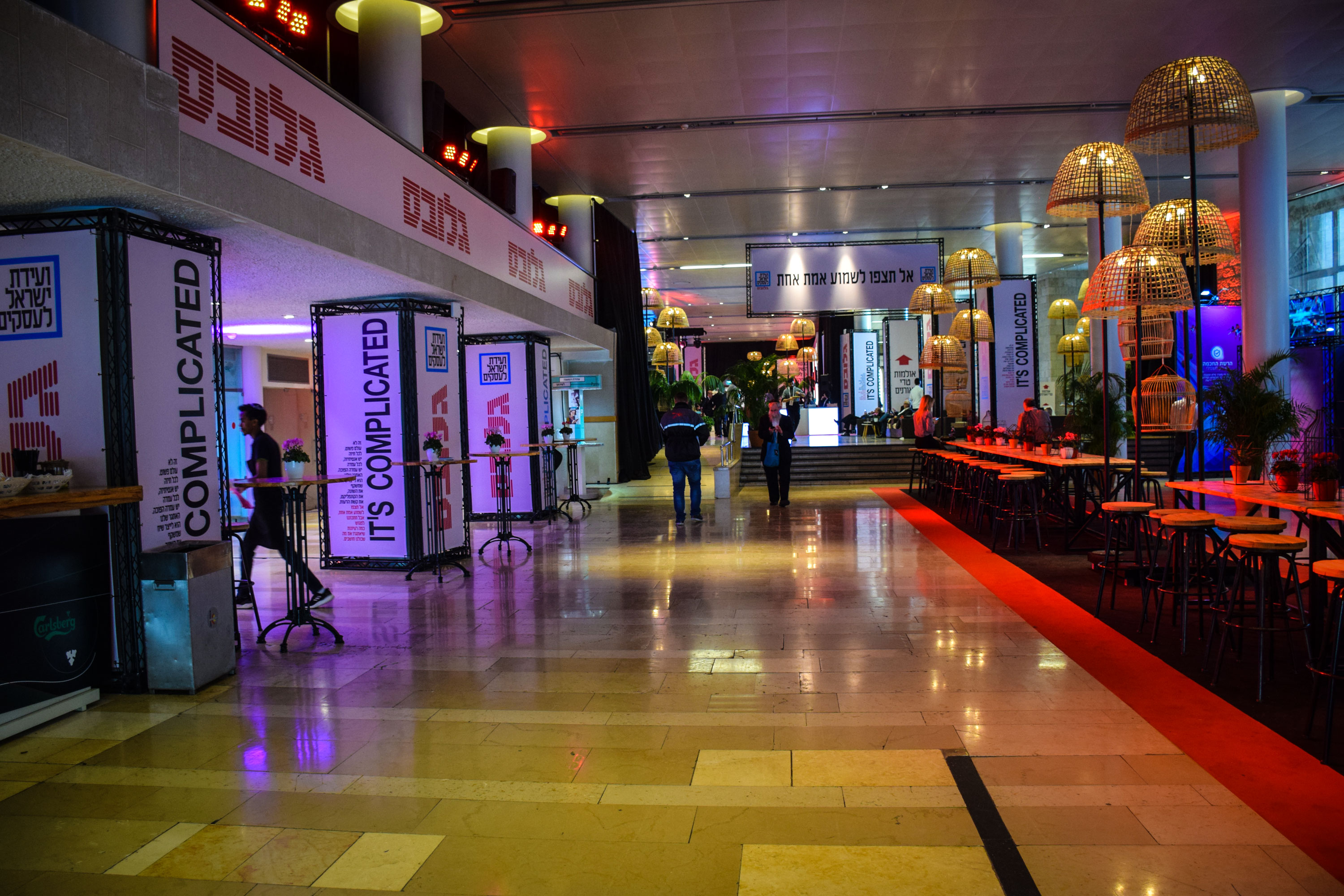 Globes Israel business conference 2018 at International Convention Center entrance Binyenei HaUma